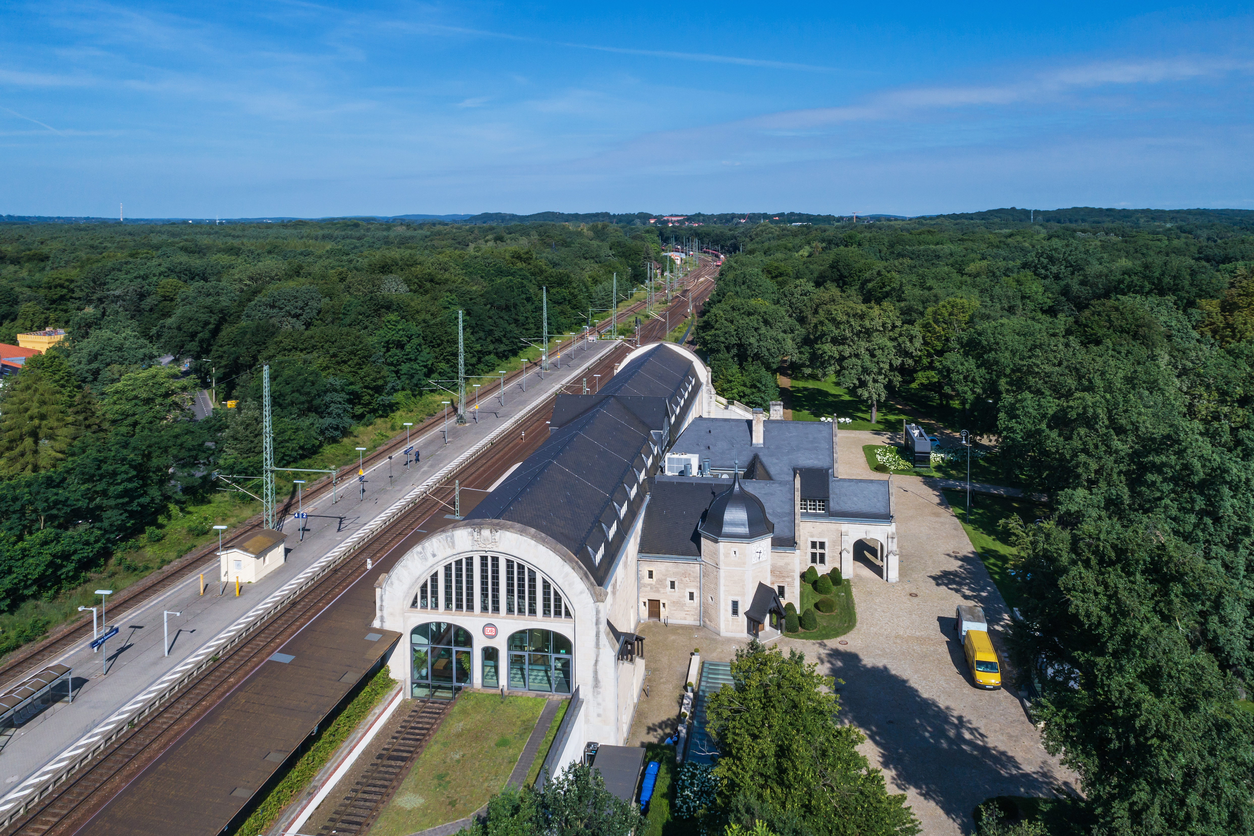 Park Sanssouci railway station with Emperor's Pavilion in Potsdam (Germany)